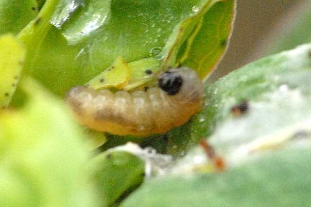 Lathronympha strigana from Commanster, Belgian High Ardennes .